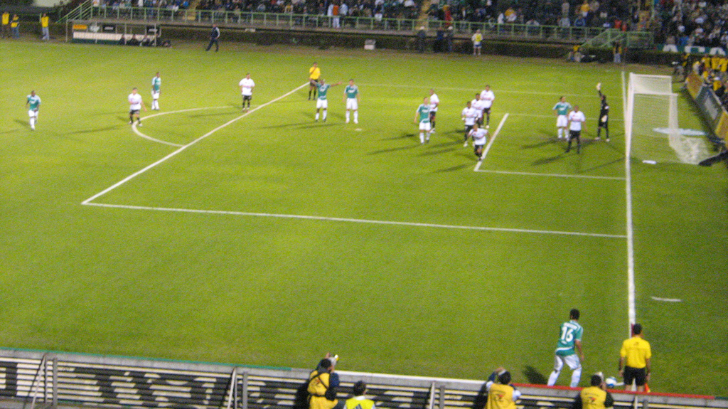 match of Brazilian Championship of 2.007 between Palmeiras and São Paulo in Palestra Itália stadium, known as Parque Antártica. One of the most important brazilian derbies. The game ended 0 to 1. View of the São Paulo supporters.